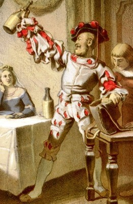 Illustration for 'Bruder Lustig' by Emil Hünten for 'Grimm's Fairy Tales' 1885